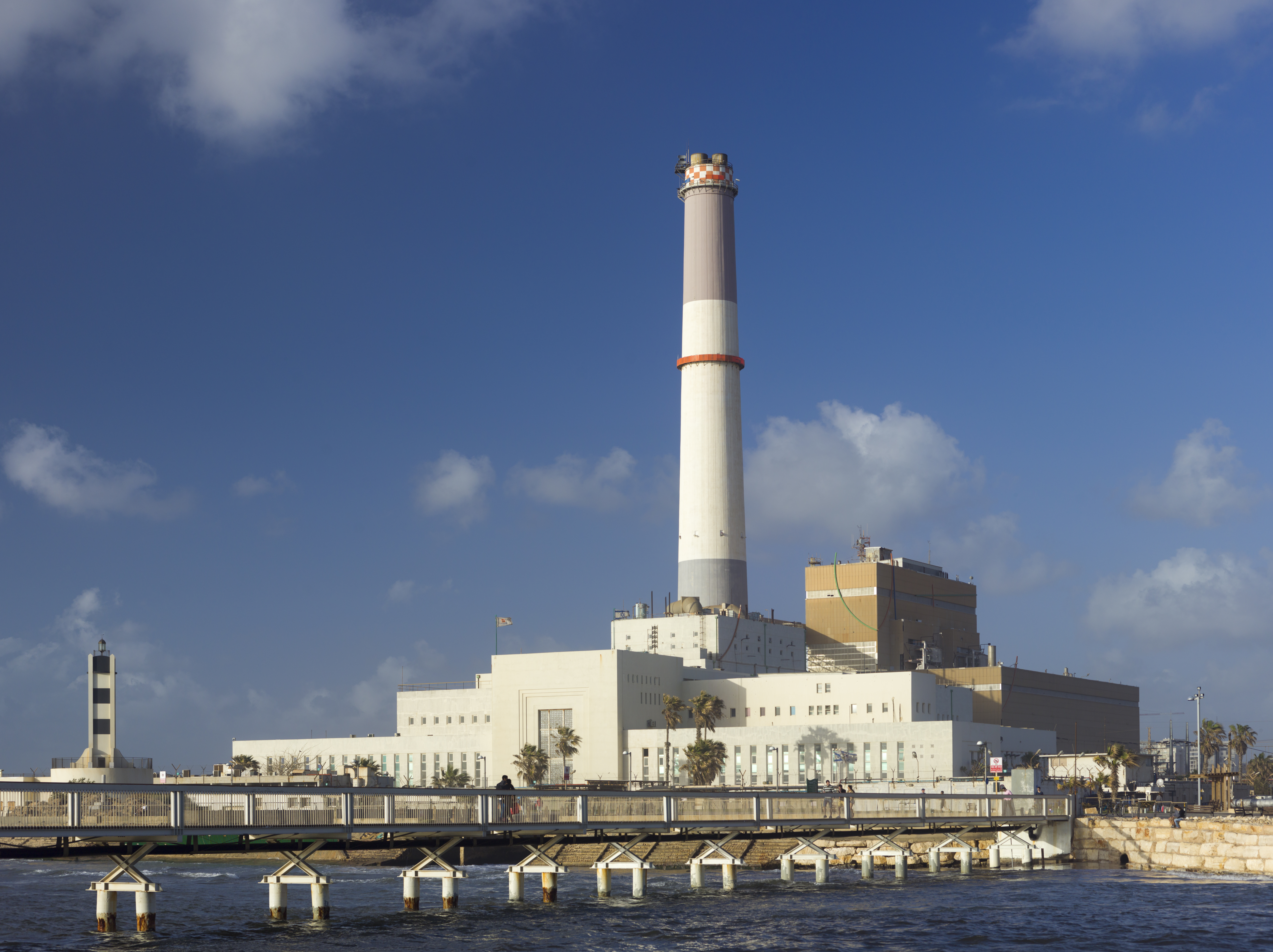 Reading Power Station, built in Tel Aviv in 1938, was named for Rufus Isaacs, the 1st Marquess of Reading. Reading Light pictured on the left.